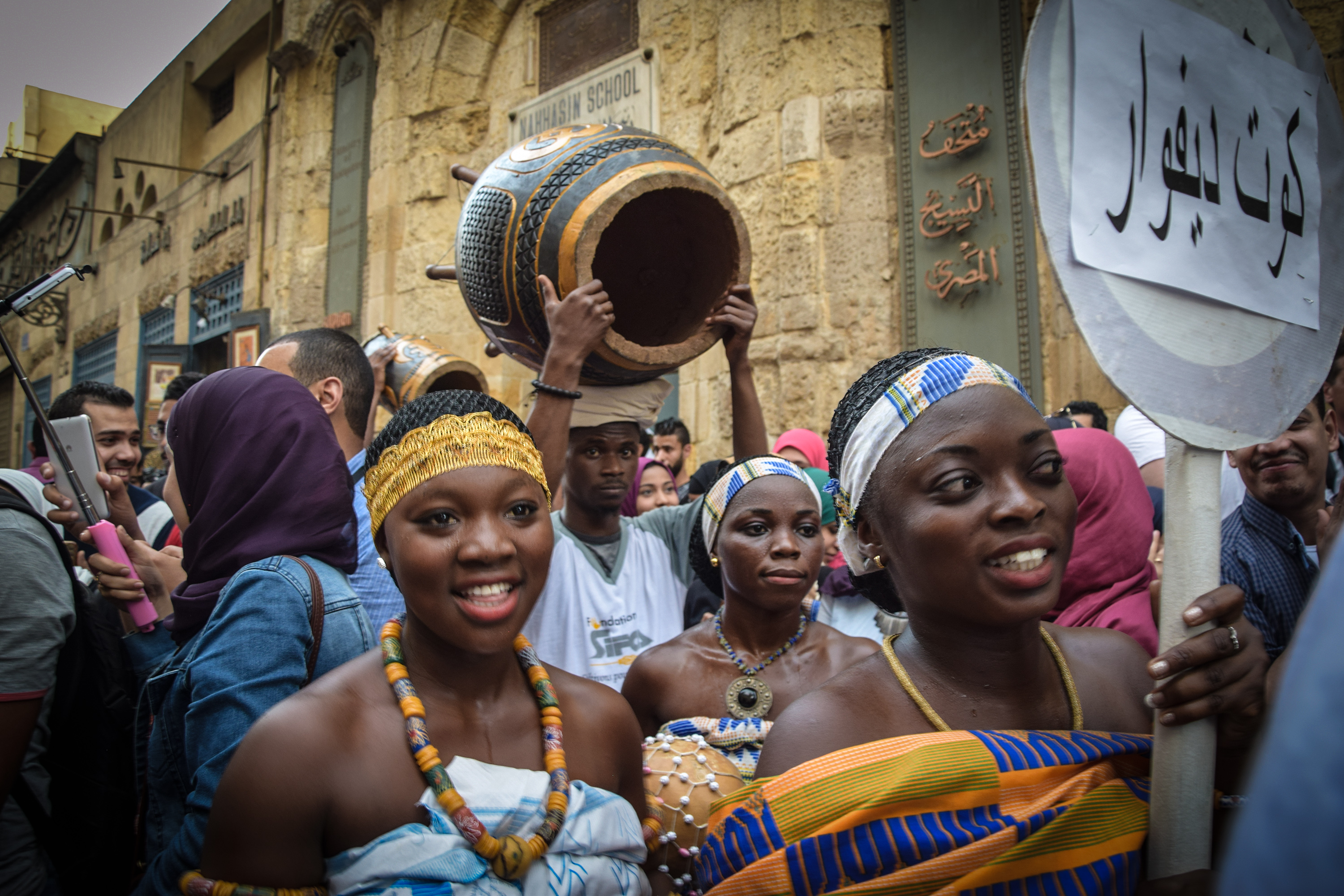 This is an image with the theme "Play" from: Egypt